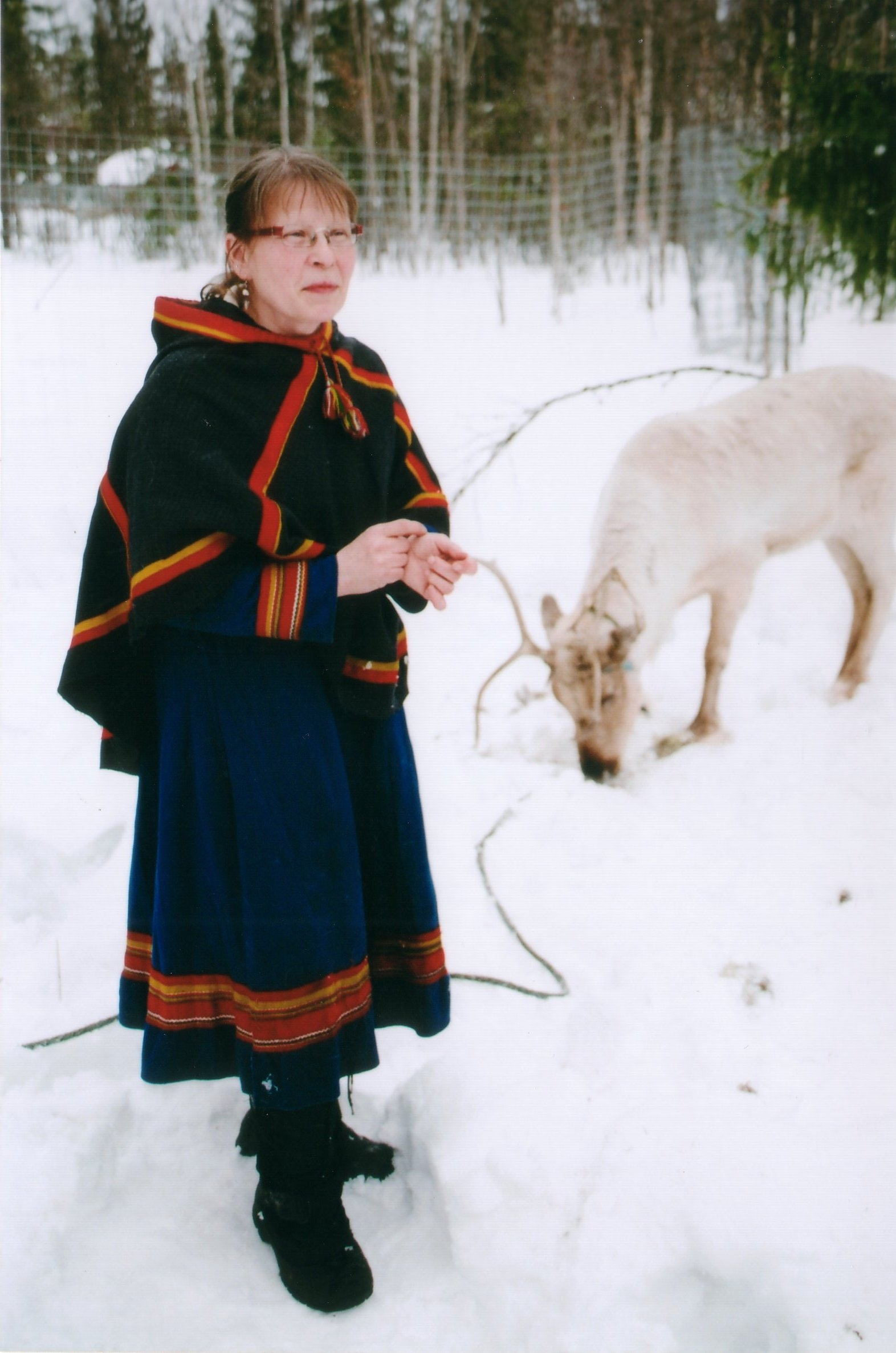 Swedish woman in Sami clothing next to a white reindeer.